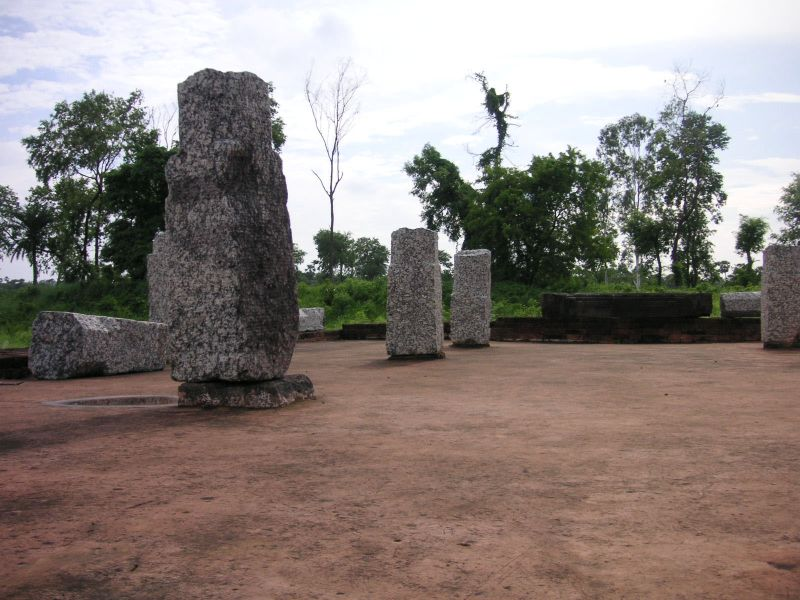 Pillars are Ruins of Ancient University Vikramshila